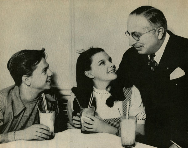 Publicity still released by MGM of Mickey Rooney, Judy Garland, and Louis B. mayer